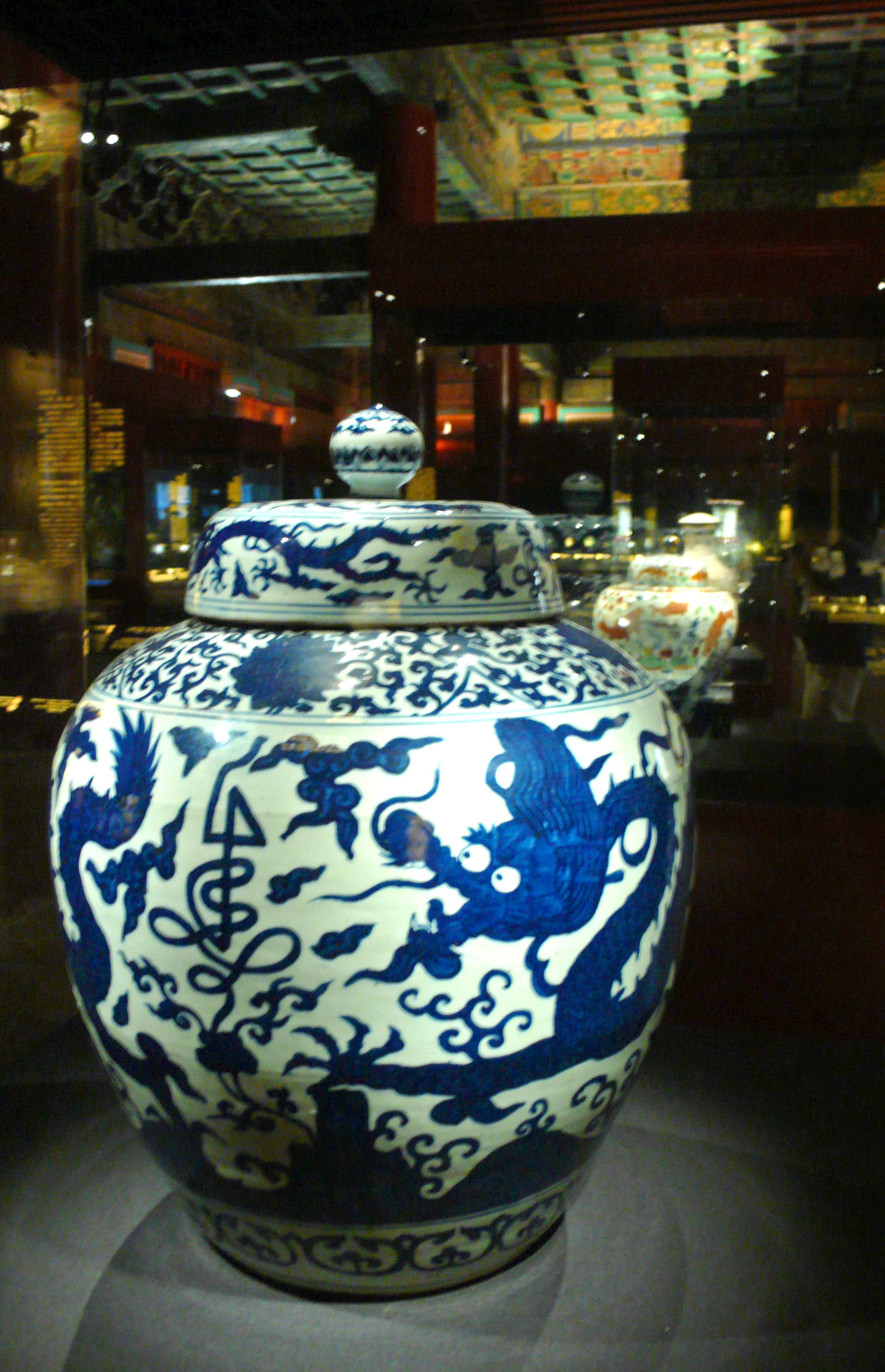 Collection of Palace Museum, Beijing. Originally uploaded to: Blue and white covered jar with cloud and dragon, marked with the word "Longevity" Jia Jing period, Ming Dynasty, 1522-1566